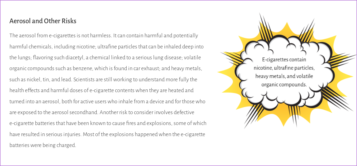 The text reads: The aerosol from e-cigarettes is not harmless. It can contain harmful and potentially harmful chemicals, including nicotine; ultrafine particles that can be inhaled deep into the lungs; flavoring such diacetyl, a chemical linked to a serious lung disease; volatile organic compounds such as benzene, which is found in car exhaust; and heavy metals, such as nickel, tin, and lead. Scientists are still working to understand more fully the health effects and harmful doses of e-cigarette contents when they are heated and turned into an aerosol, both for active users who inhale from a device and for those who are exposed to the aerosol secondhand. Another risk to consider involves defective e-cigarette batteries that have been known to cause fires and explosions, some of which have resulted in serious injuries. Most of the explosions happened when the e-cigarette batteries were being charged.